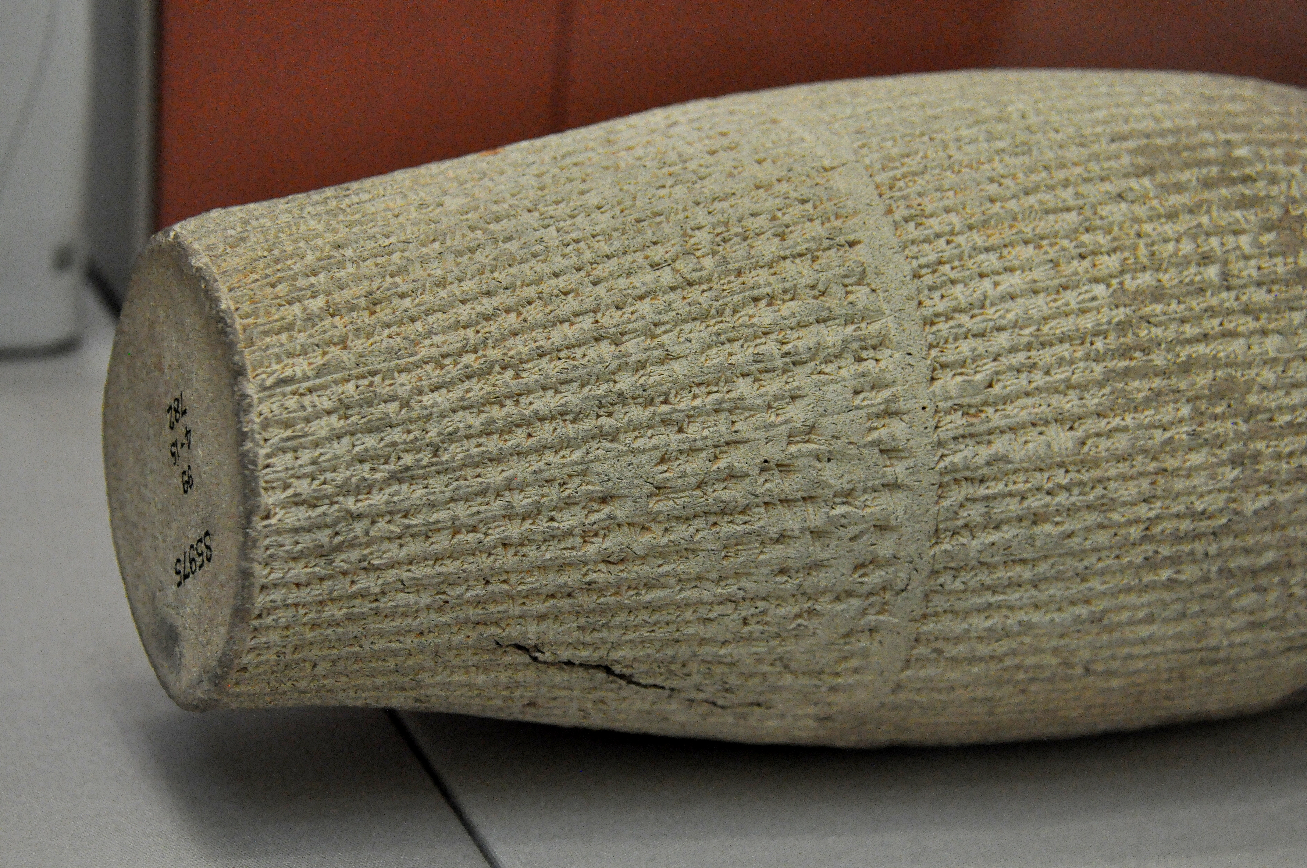 Detail of a terracotta cylinder of Nebuchadnezzar II. The cuneiform inscription records the building and reconstruction works done by the king at Babylon, such as shrines, gates, quays, and processional boats used during the Babylonian new year festival. Neo-Babylonian Period, reign of Nebuchadnezzar II, 604-562 BCE. From Babylon, modern-day Iraq, housed in the British Museum. London. BM 85975